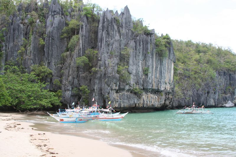 Arrival at Subterranean River National Park, the Philippines